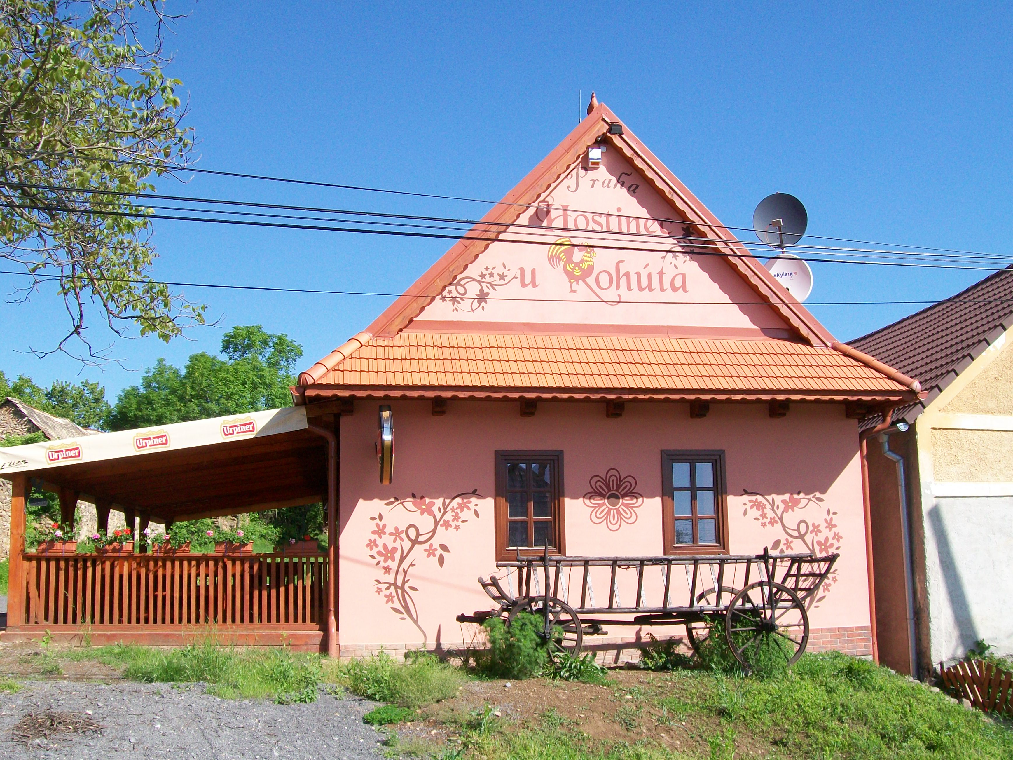 U Kohúta Guest house in the village of PrahaSlovenčina: Hostinec u Kohúta v obci Praha